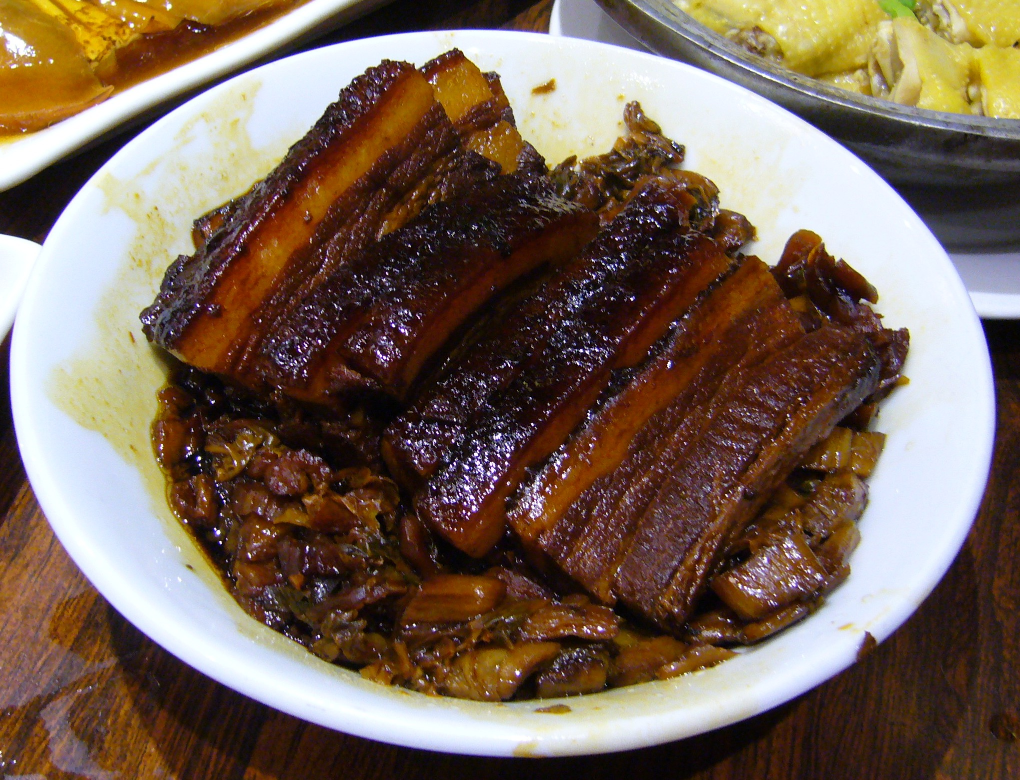 Kiu nyuk (扣肉, sliced pork with preserved mustard greens), as served at Hong Kong theme restaurant Hakka Hut.